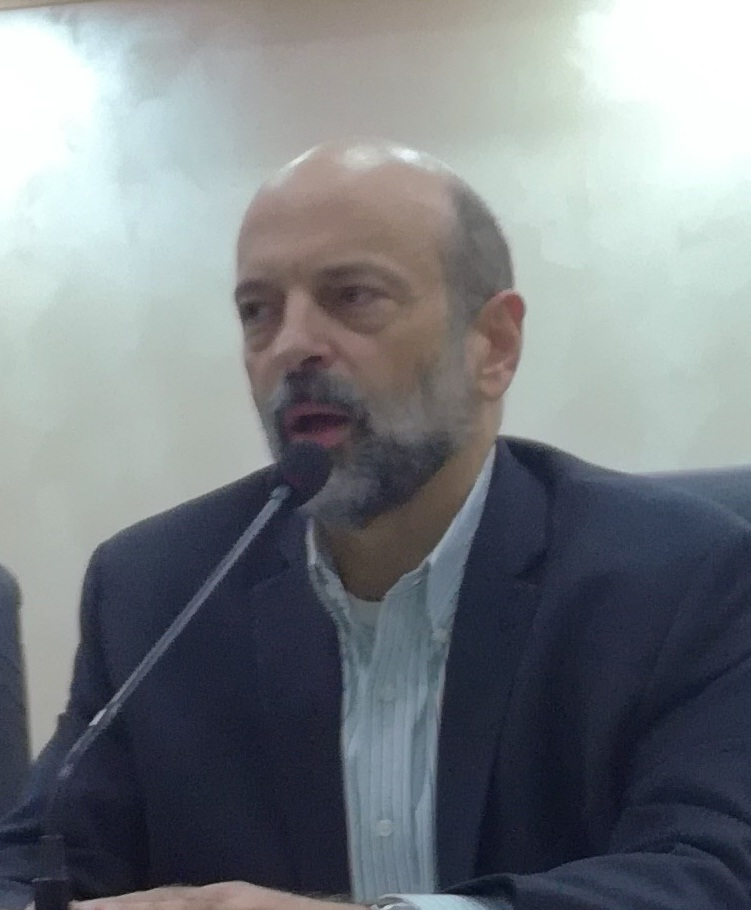 Omar Alrzaz during a panel discussion episodes in Az Zarqa